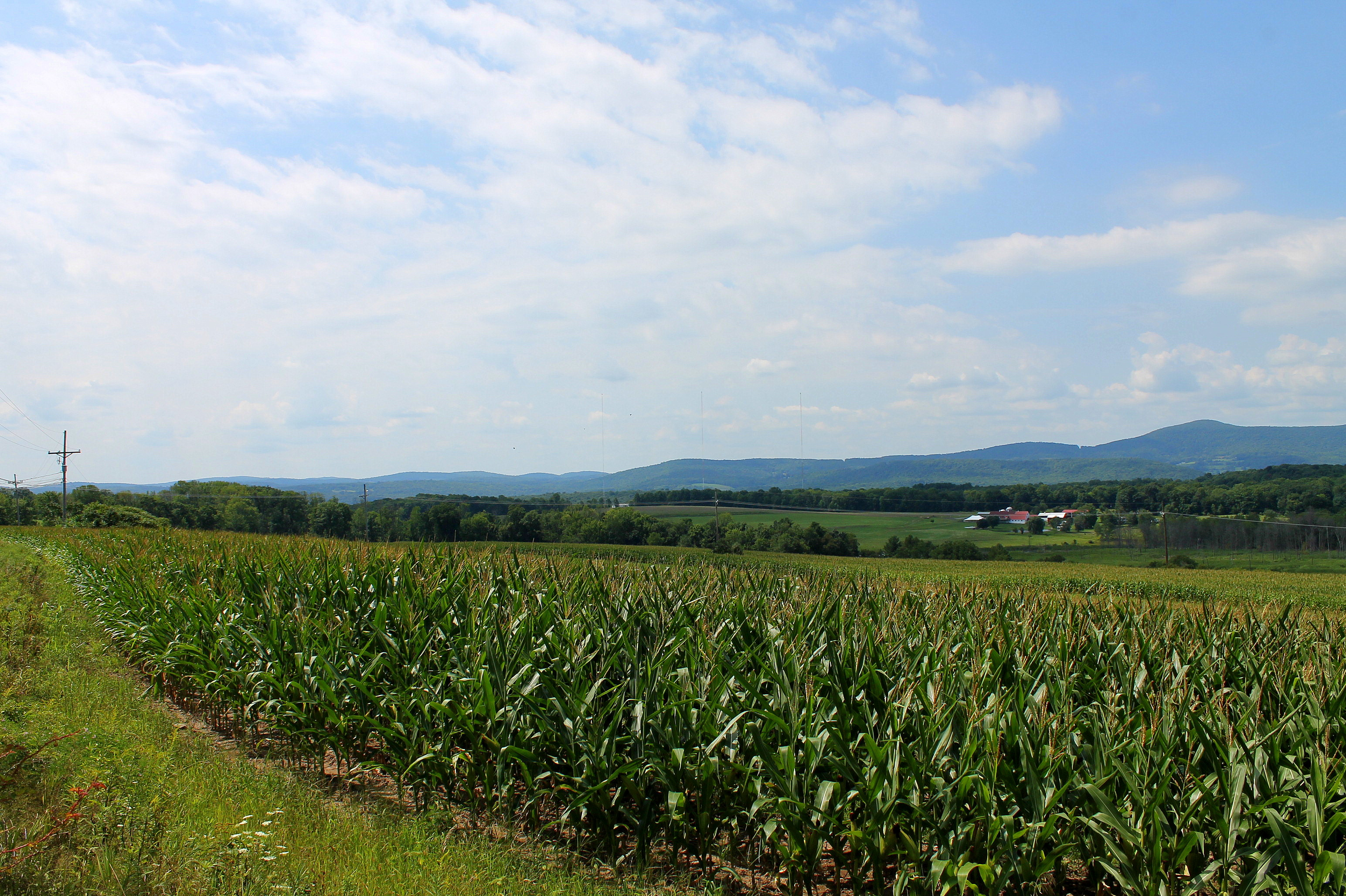 Scenery of Falls Township, Wyoming County, Pennsylvania from Post Hill. The mountains on the horizon are across the Susquehanna River in other townships.